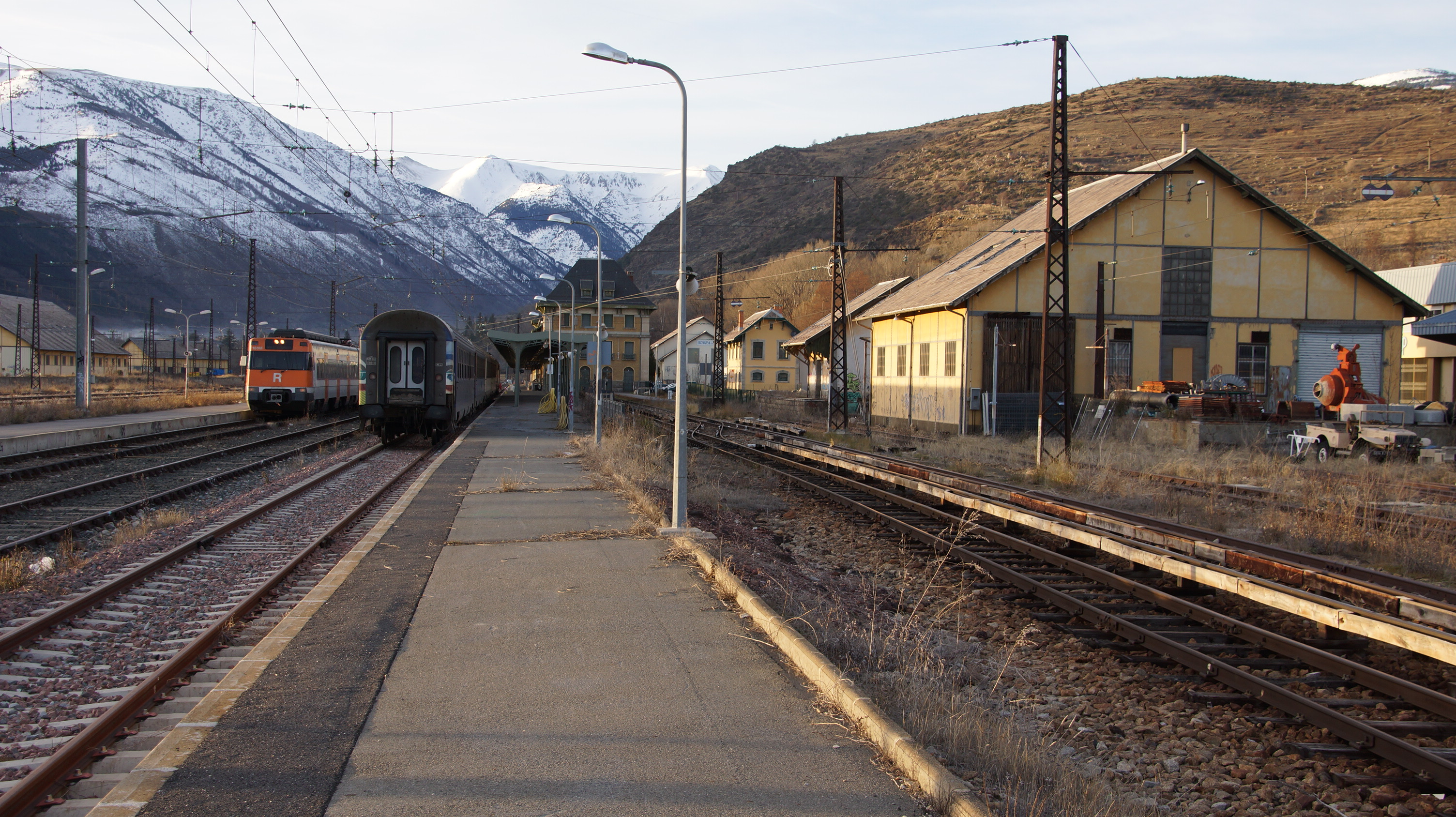 Three gauges 1668, 1435 and 1000 mm (from left to right) at the station of Latour-de-Carol-Enveitg (Catalan: La Tor de Querol-Enveig)